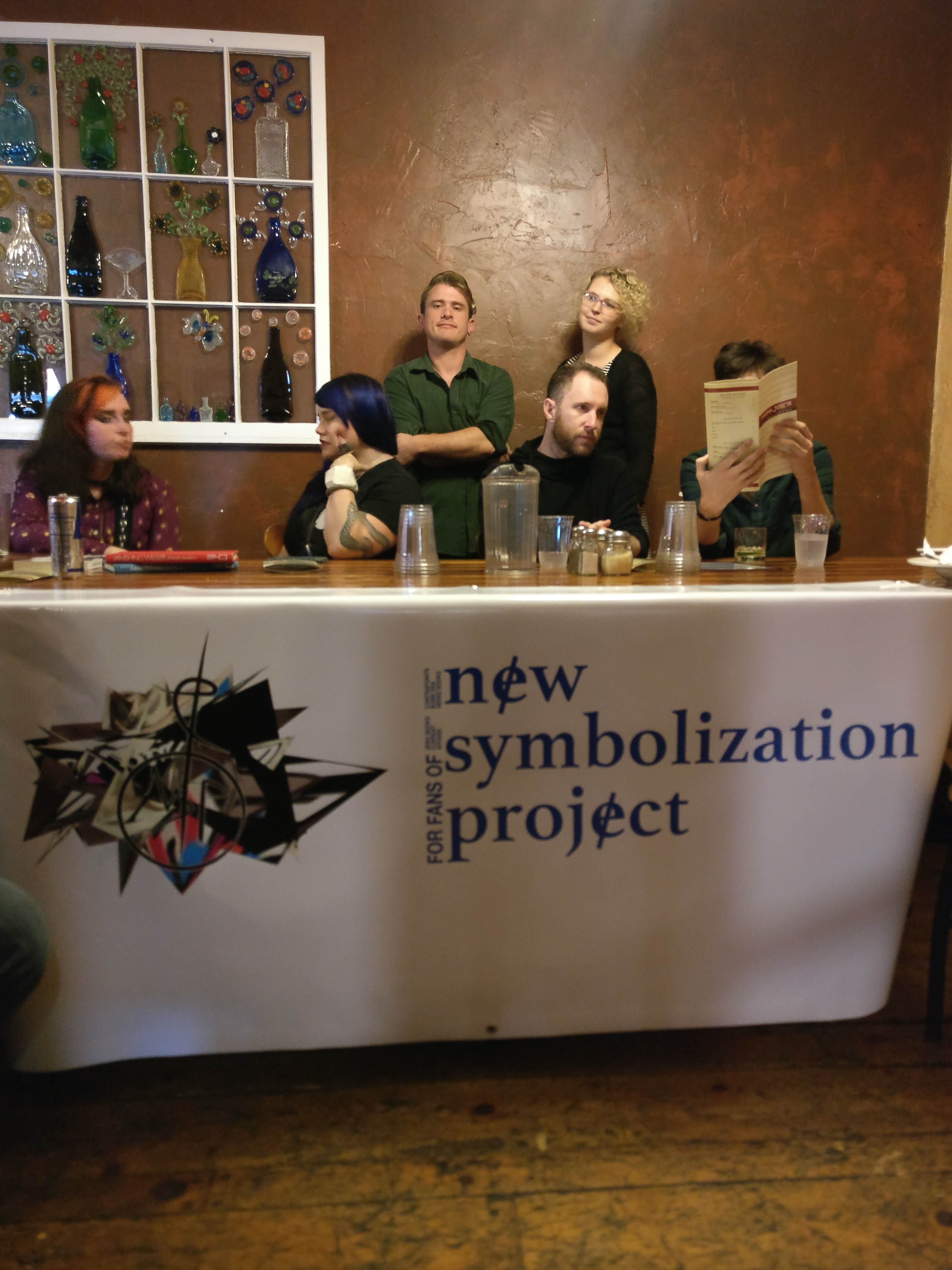 New Symbolization Project, a critical theory club at Boise State University, held the first sustained, multi-disciplinary academic response to the Jordan Peterson phenomenon in late October 2018. Avowed anti-capitalist egalitarians seeking to critique, undermine, and outgrow capitalist realism and reactionary discourses, here several of the attendees and organizers are holding their first meeting at Papa Joe's on Capital Blvd. to schmooze and plan the logistics of the multi-media event, Zero Books and the Cascadia Network being amongst the media participants.